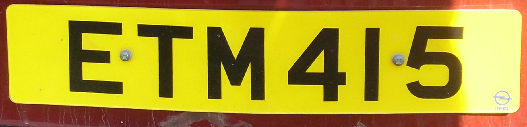 Licence plate of Cyprus, 1990-2004